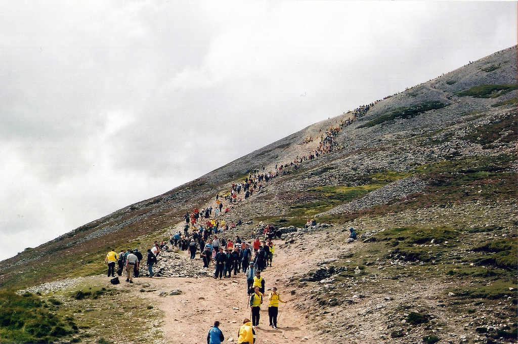 Croagh Patrick Pilgrim Sunday the ascent of the Holy Mountain